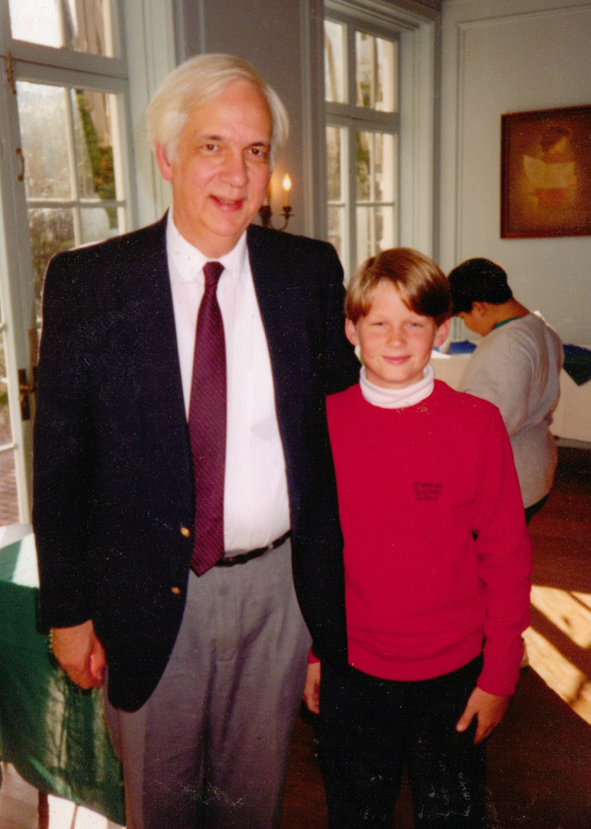 Dr. James Litton and American Boychoir chorister Todd Smith at Albemarle in Princeton, NJ 1992